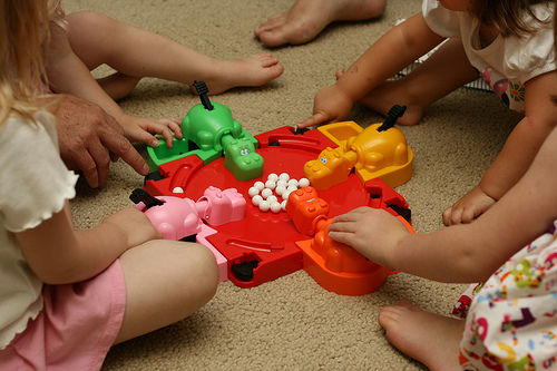 Friends of ours that moved to North Dakota were back in town for the weekend. All the kids played Hungry Hippos for a while until it became too chaotic.